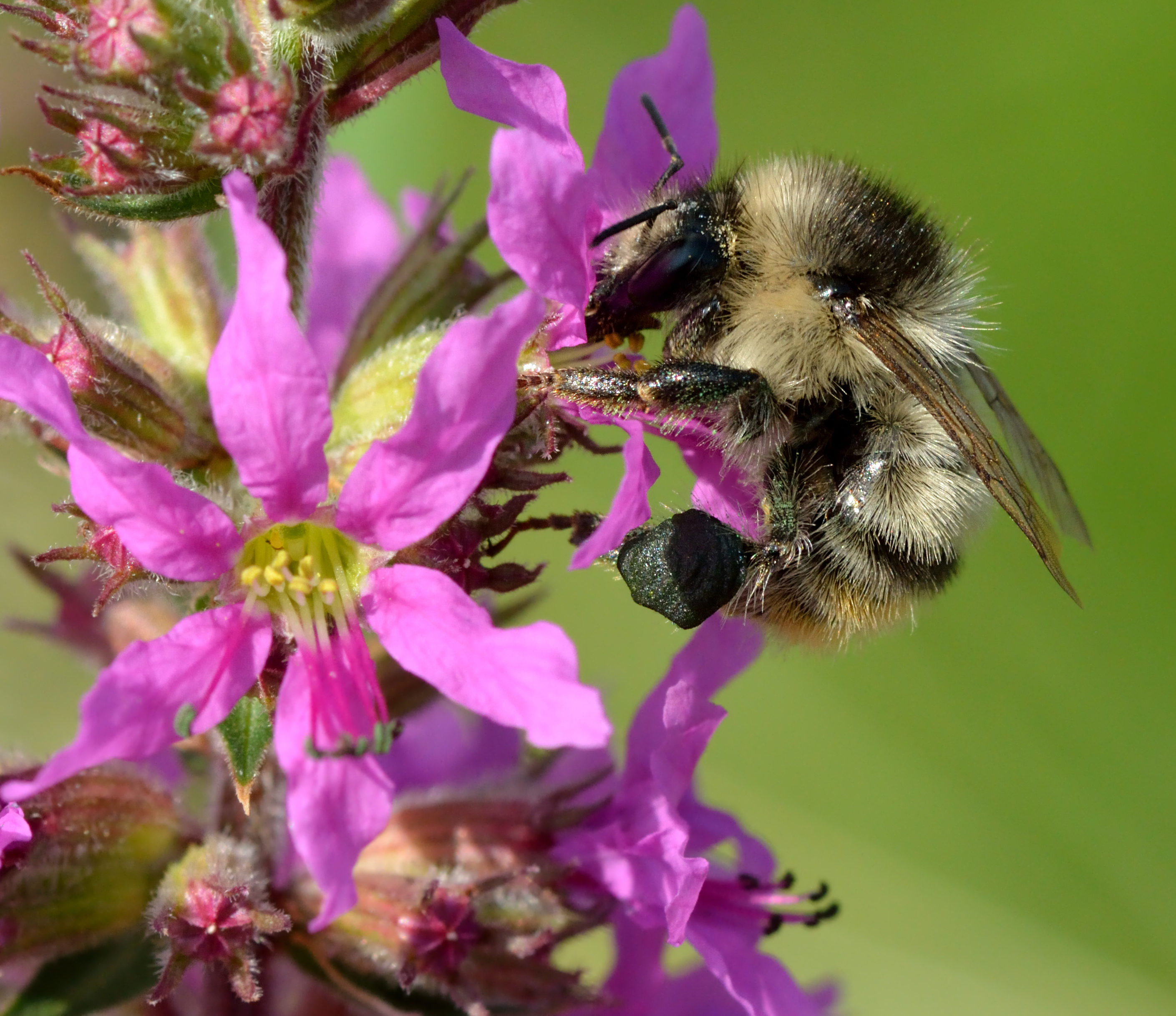 Shrill carder bee (Bombus sylvarum) on the purple loosestrife (Lythrum salicaria). Pollen basket contains dark green pollen. Keila, Northwestern Estonia.